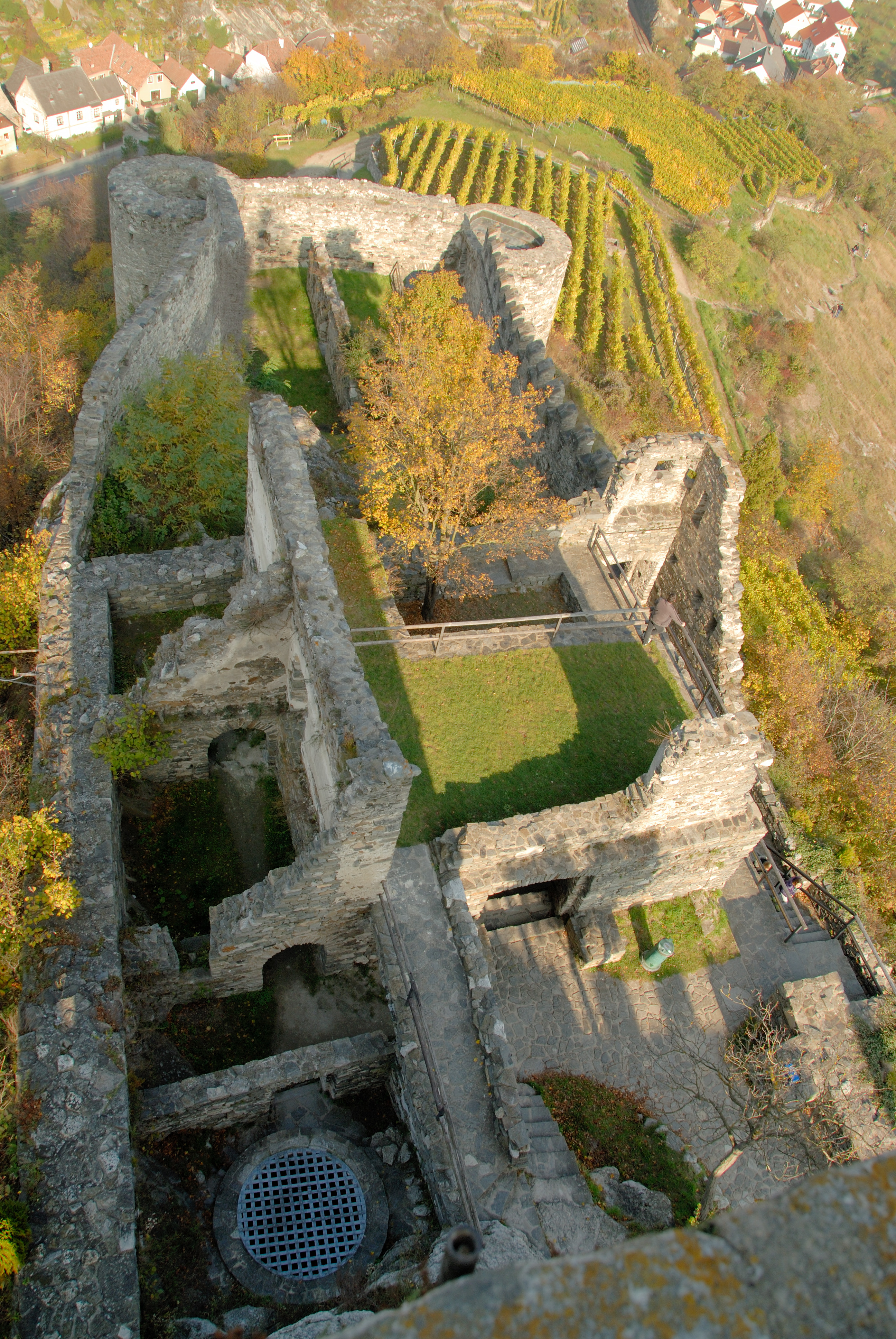 Runie Hinterhaus, lower Austria